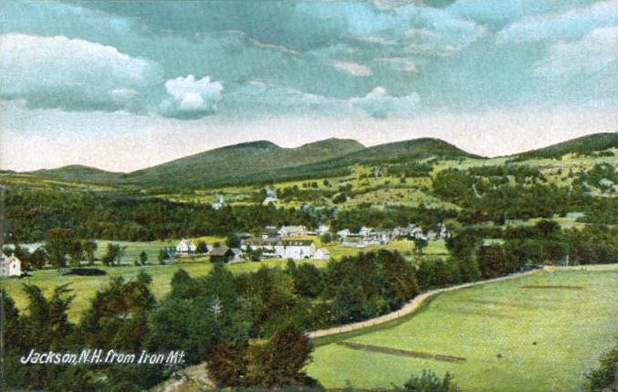 Jackson, NH from Iron Mountain; from a 1907 postcard.